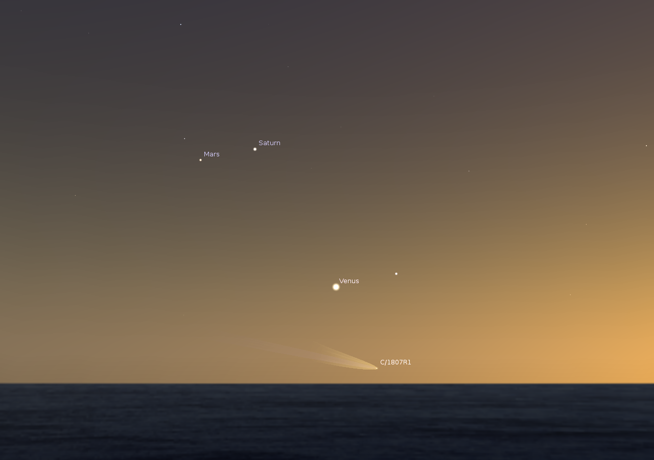 Discovery situation of the comet C/1807 R1 in the evening twilight of 9 Sept 1807 around 5:50 pm GMT in Sicily (view towards West over the sea). Created with Stellarium 0.13.0